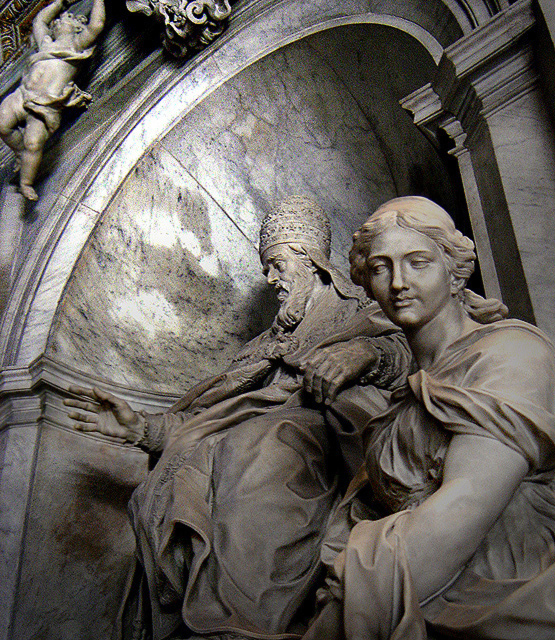 Tomb of Pope Leo XI, by Algardi, Saint Peter's Basilica.